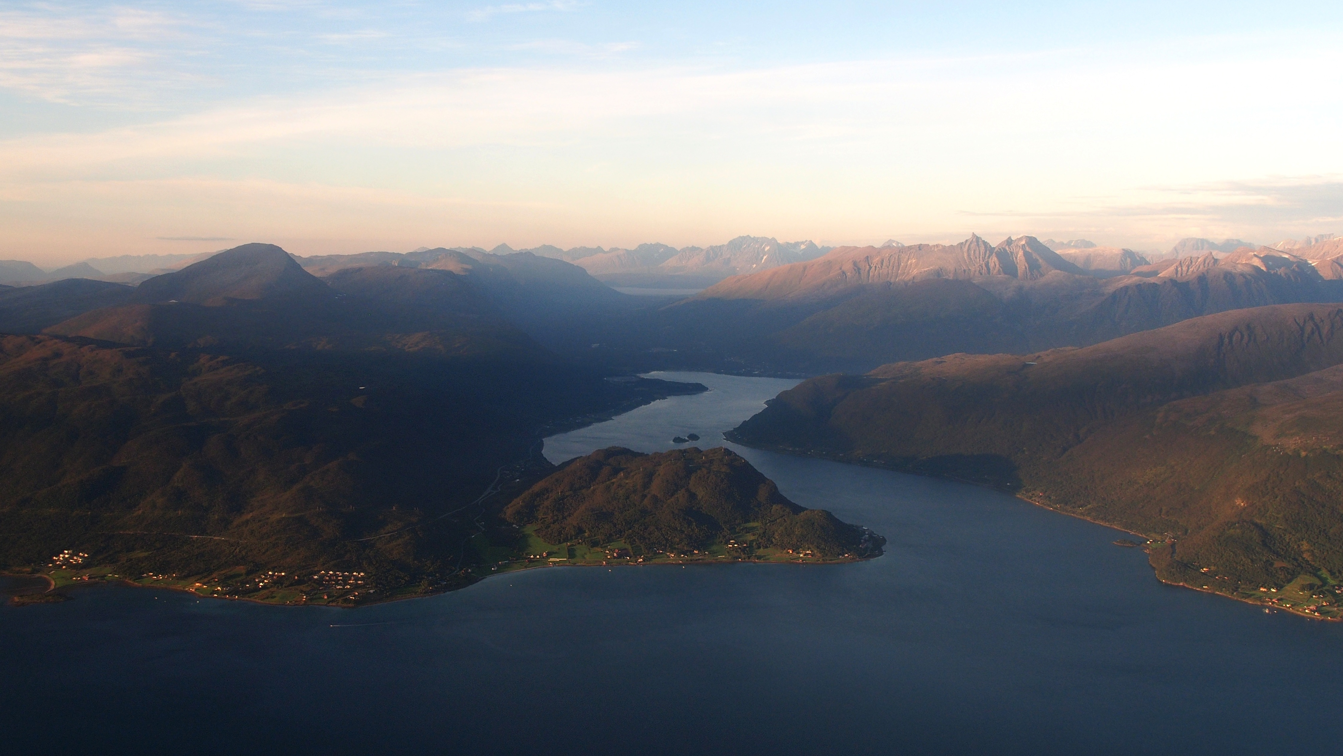 Aerial View of Ramfjord - 2013.08